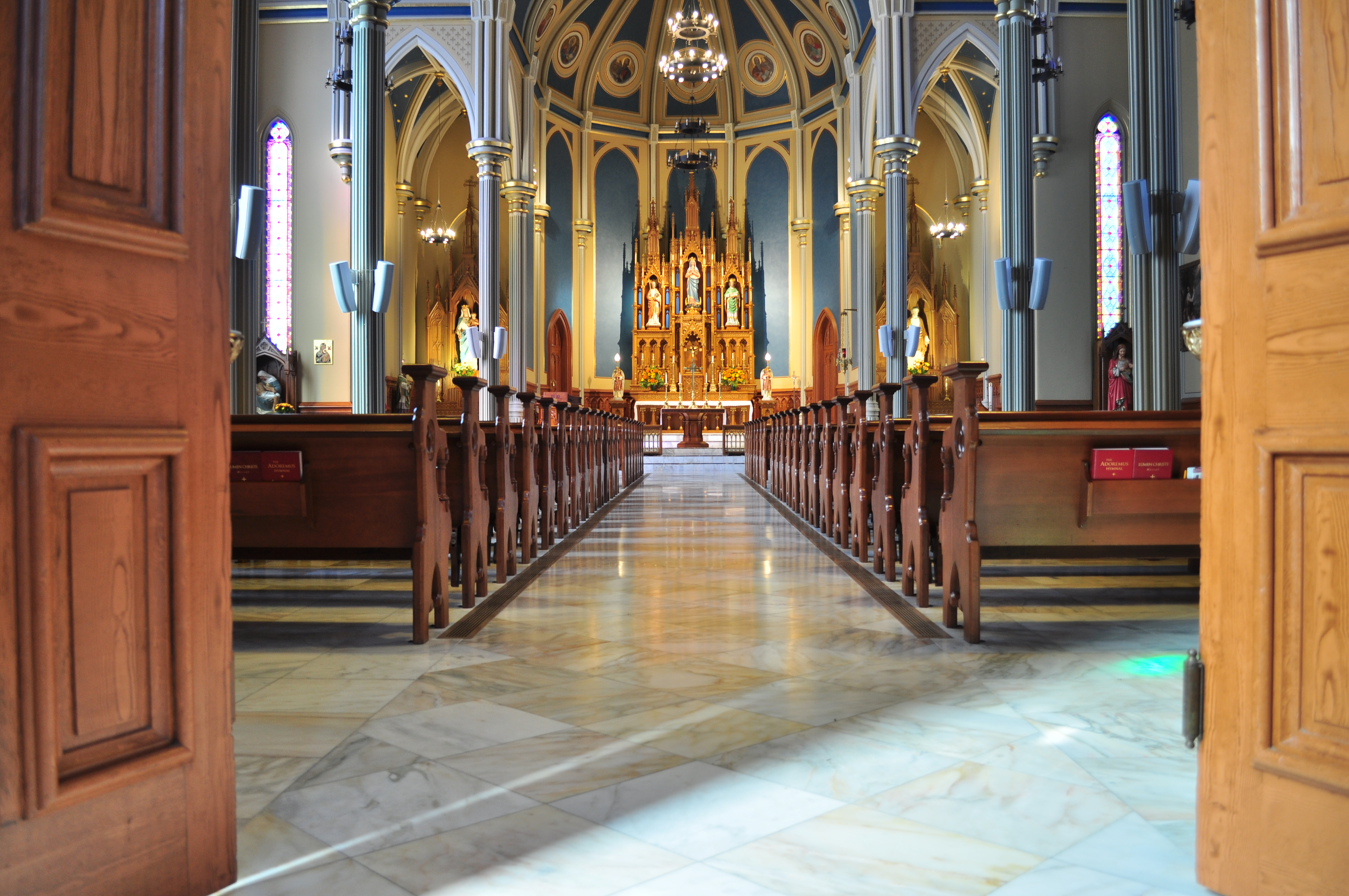 Interior, St. James Catholic Church, Vancouver, Washington.